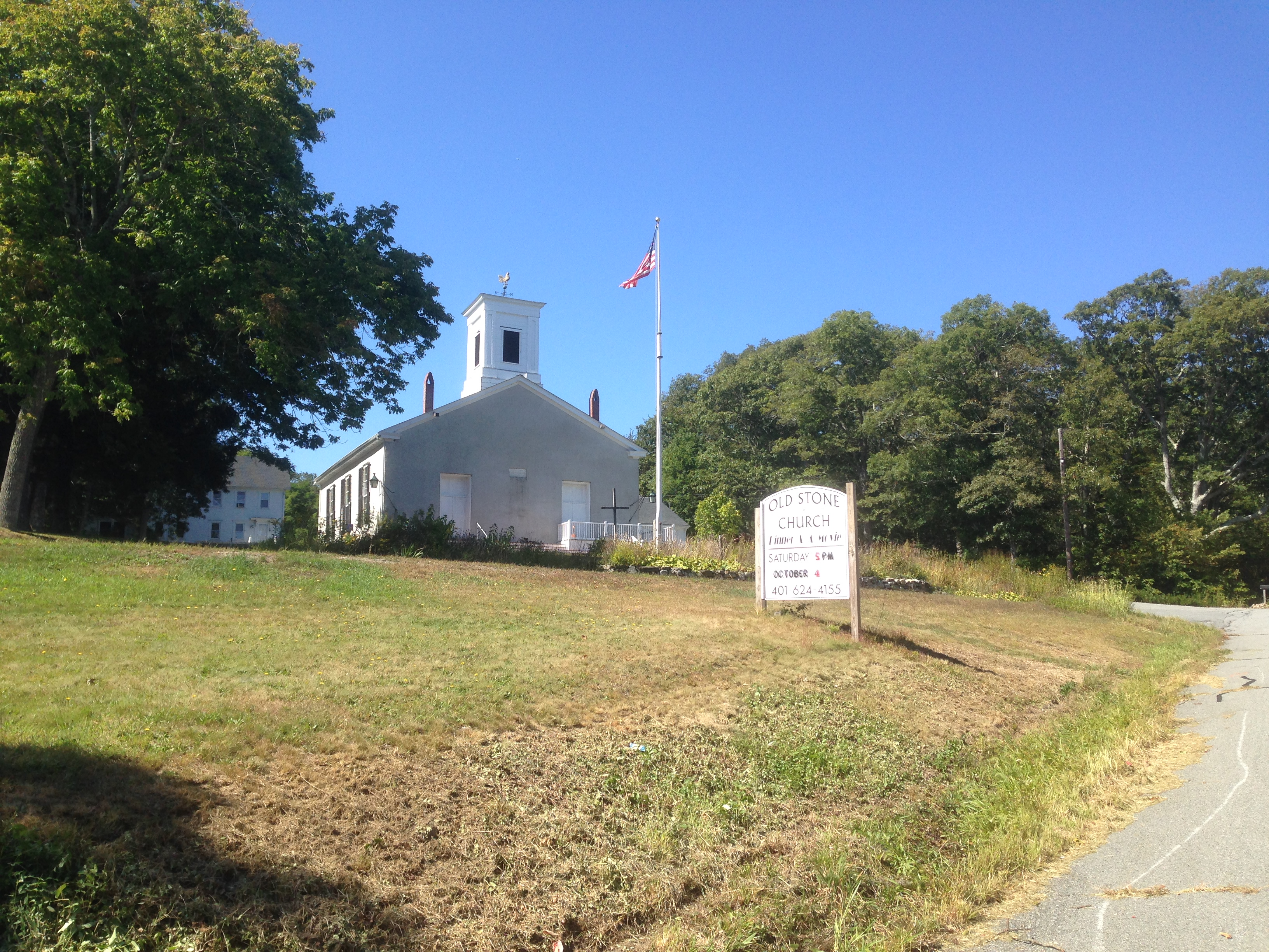 First Baptist Church of Tiverton, 7 Old Stone Church Rd. Tiverton, RI